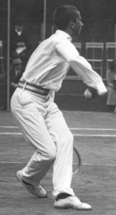 Russian tennis player tennis player Mikhail Sumarokov-Elston at the 1913 World Hard Court Championships (WHCC)